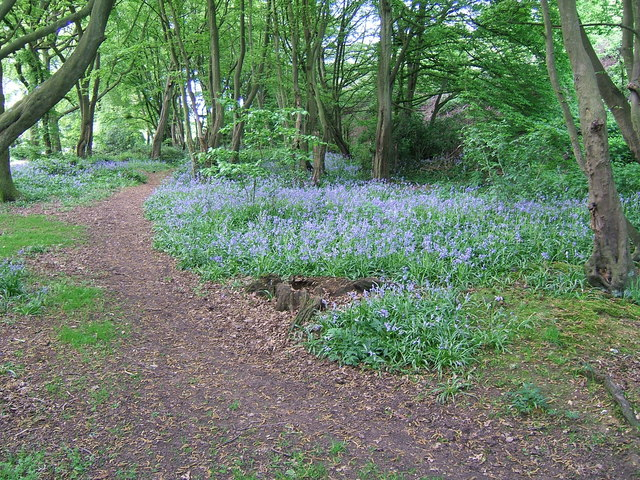 Bluebells in Lucas Wood North View of Bluebells in wood by side of A1M at Symonds Green Area Of Stevenage. Old maps from 1700s show this area as "Lucas Wood"